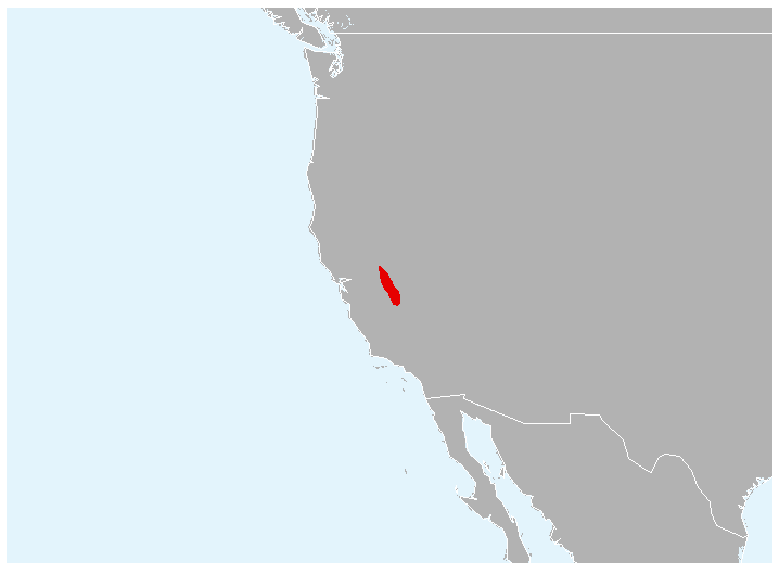 Range map for Anaxyrys canorus